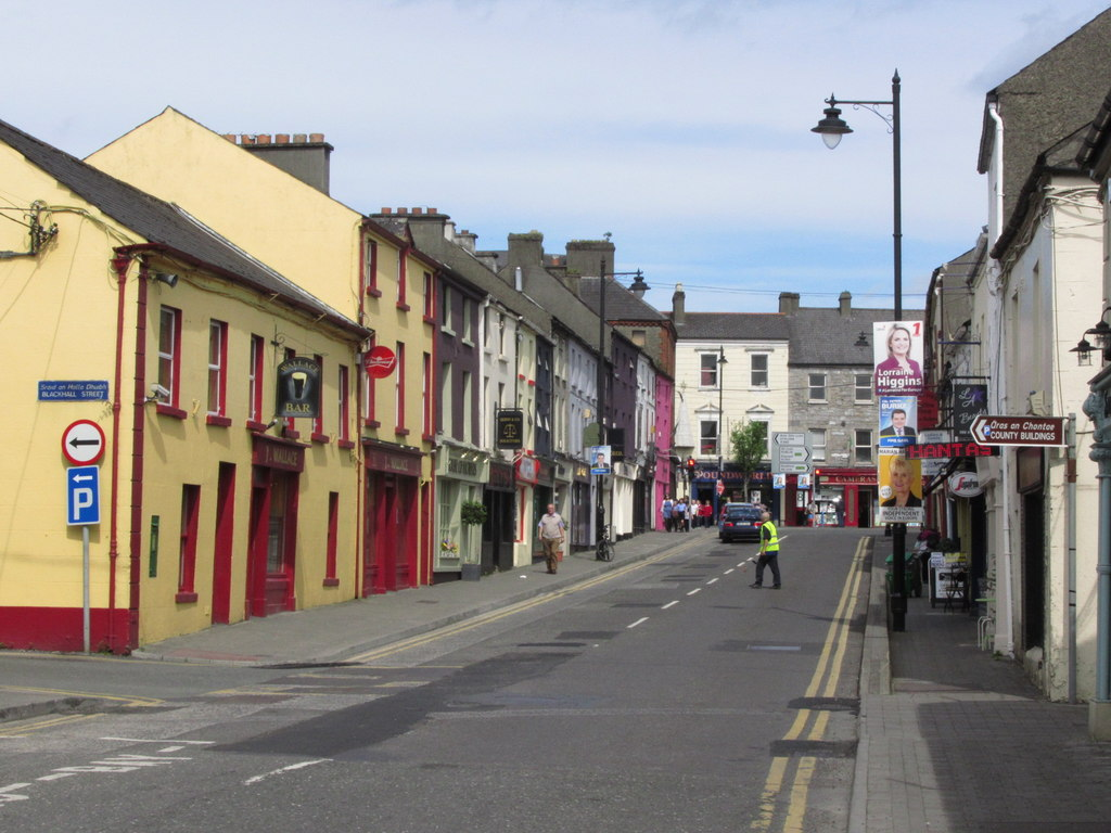 A view of Mount Street, Mullingar, Co. Westmeath, Ireland